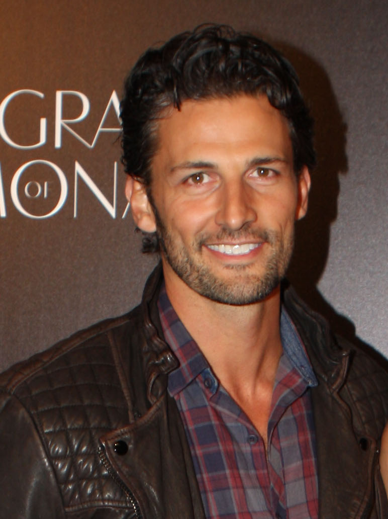 Grace of Monaco Premiere, Sydney